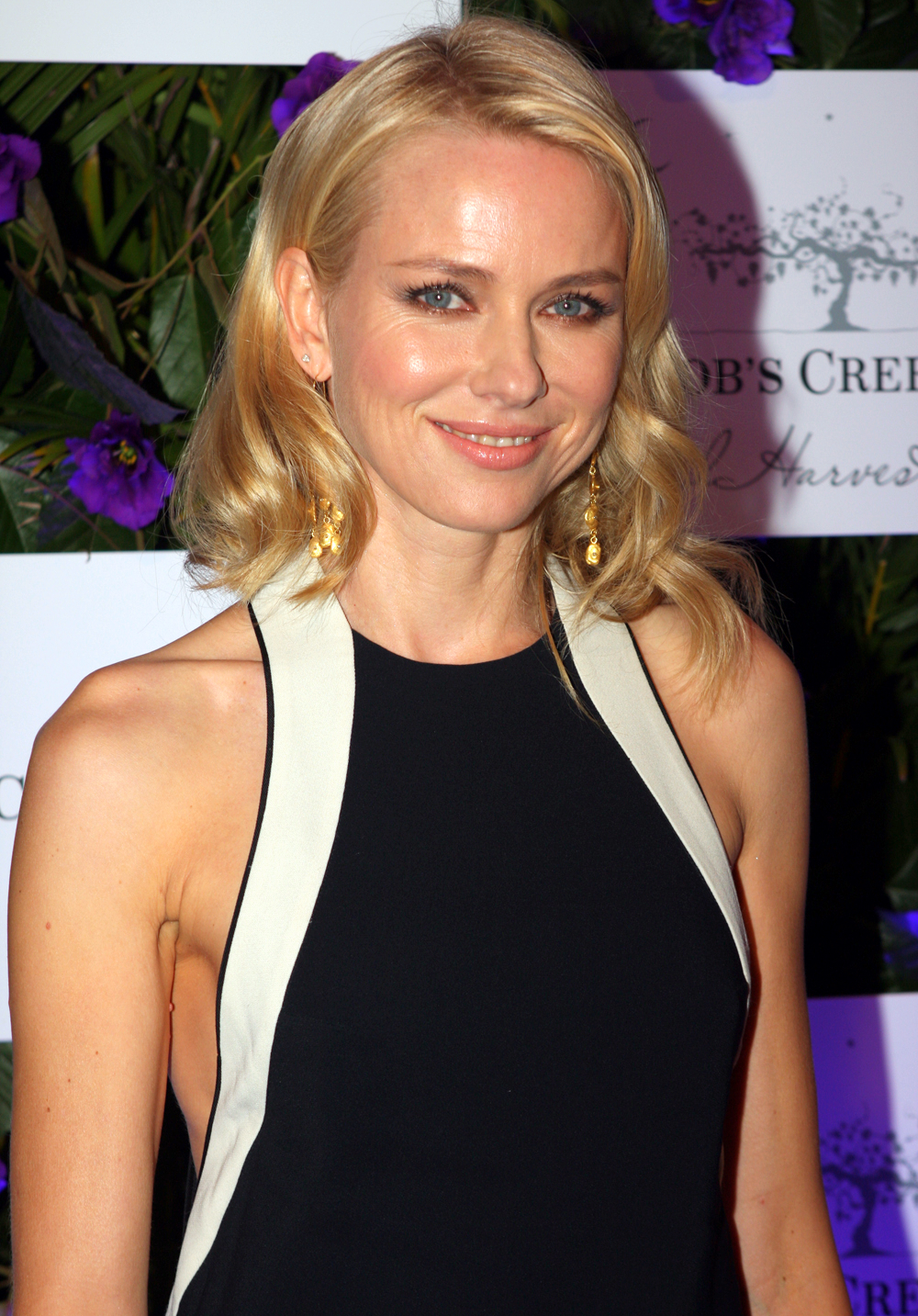 Naomi Watts Celebrates Jacob’s Creek True Friendship with Cool Harvest event 2012.